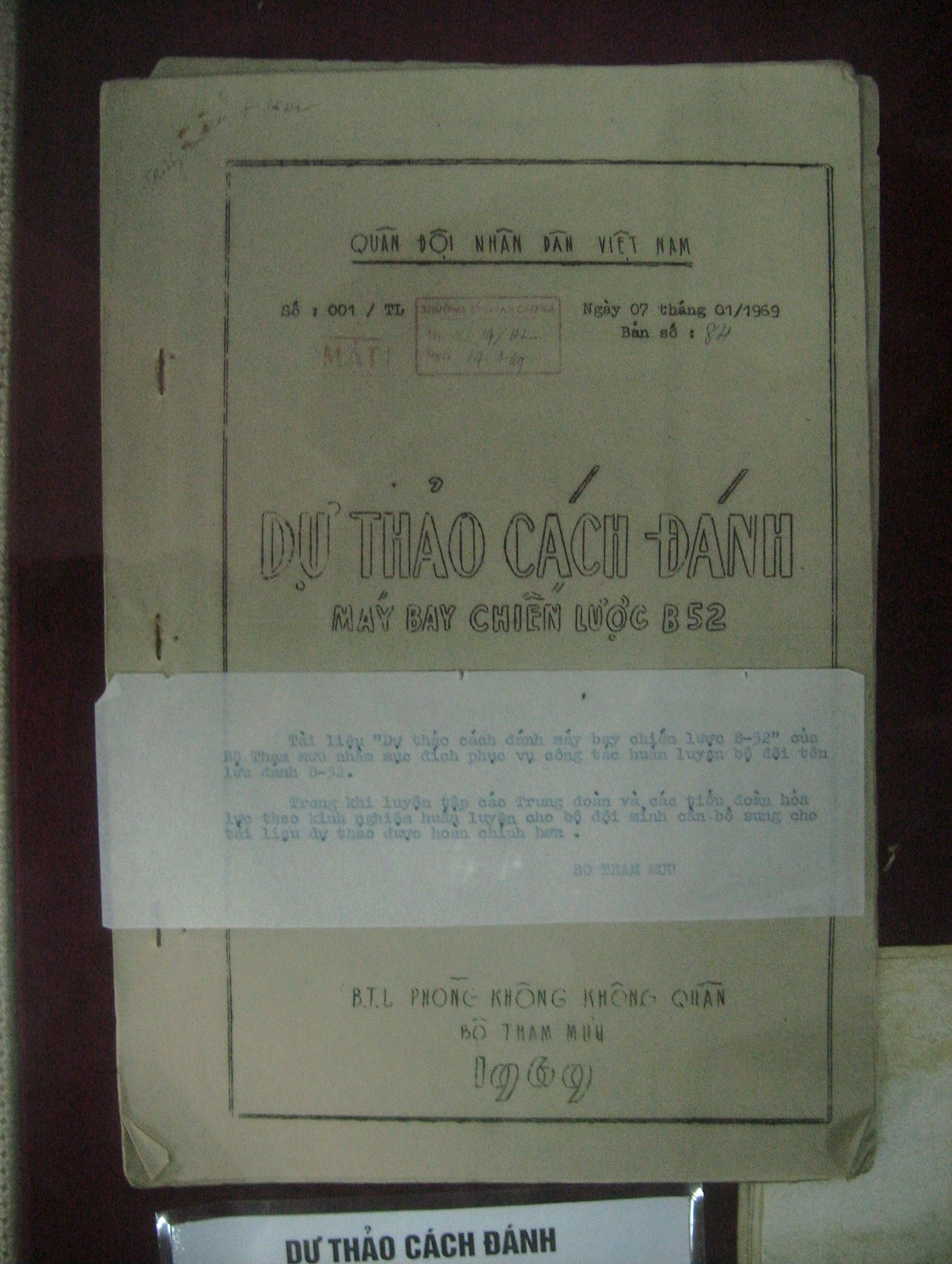 A proposal by VPA Command of Air and Air Defense Forceon how to shot down B-52. Một bản của cuốn "Dự thảo cách đánh máy bay chiến lược B52" của Bộ Tư lệnh Phòng không Không quân Việt Nam đang trưng bày tại Bảo tàng Phòng không Không quân.